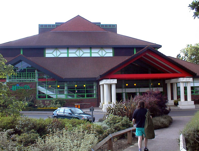 Photograph of The Hawth, Crawley, West Sussex.